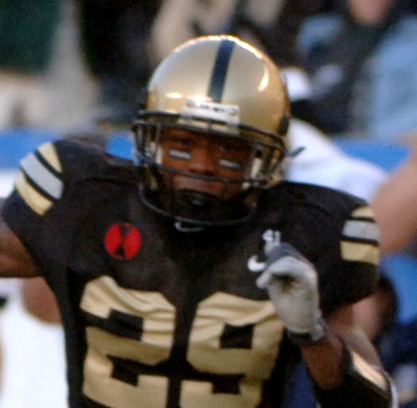 Army Black Knights player, wearing Eye blacks.